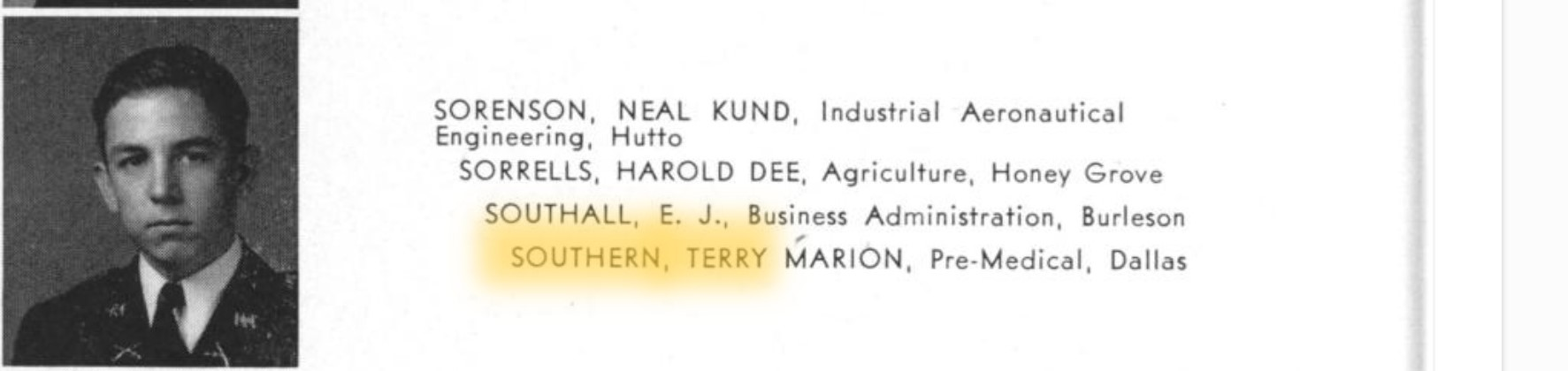 This is Terry Southern's yearbook photo from North Texas Agricultural College